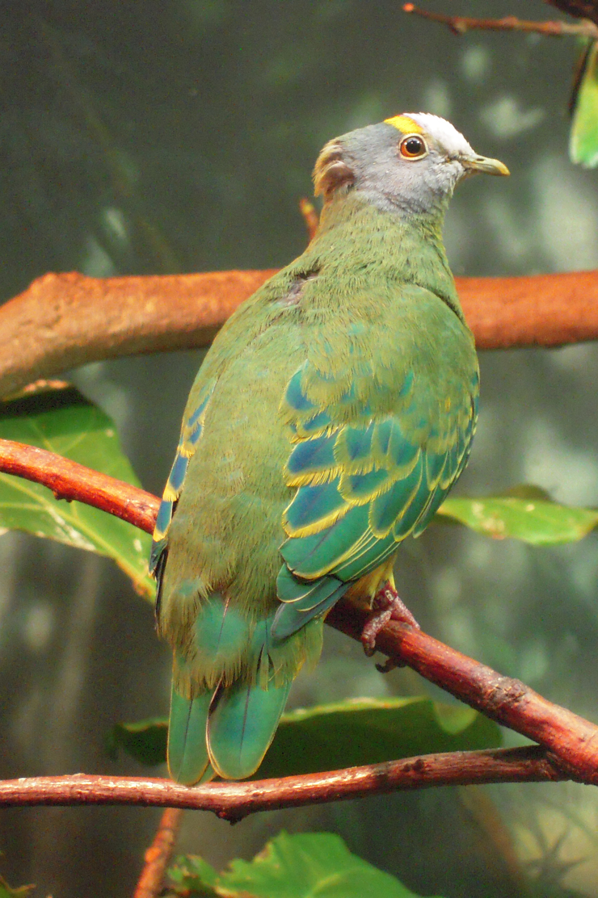 Coroneted Fruit-dove (also known as the Lilac Capped Fruit Dove) at Central Park Zoo, USA.